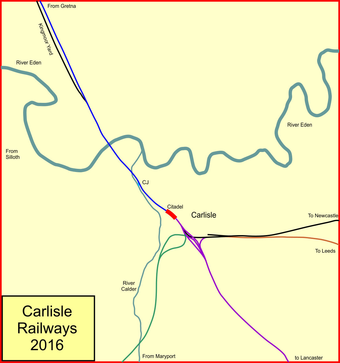 Railways of Carlisle, England, in 2016